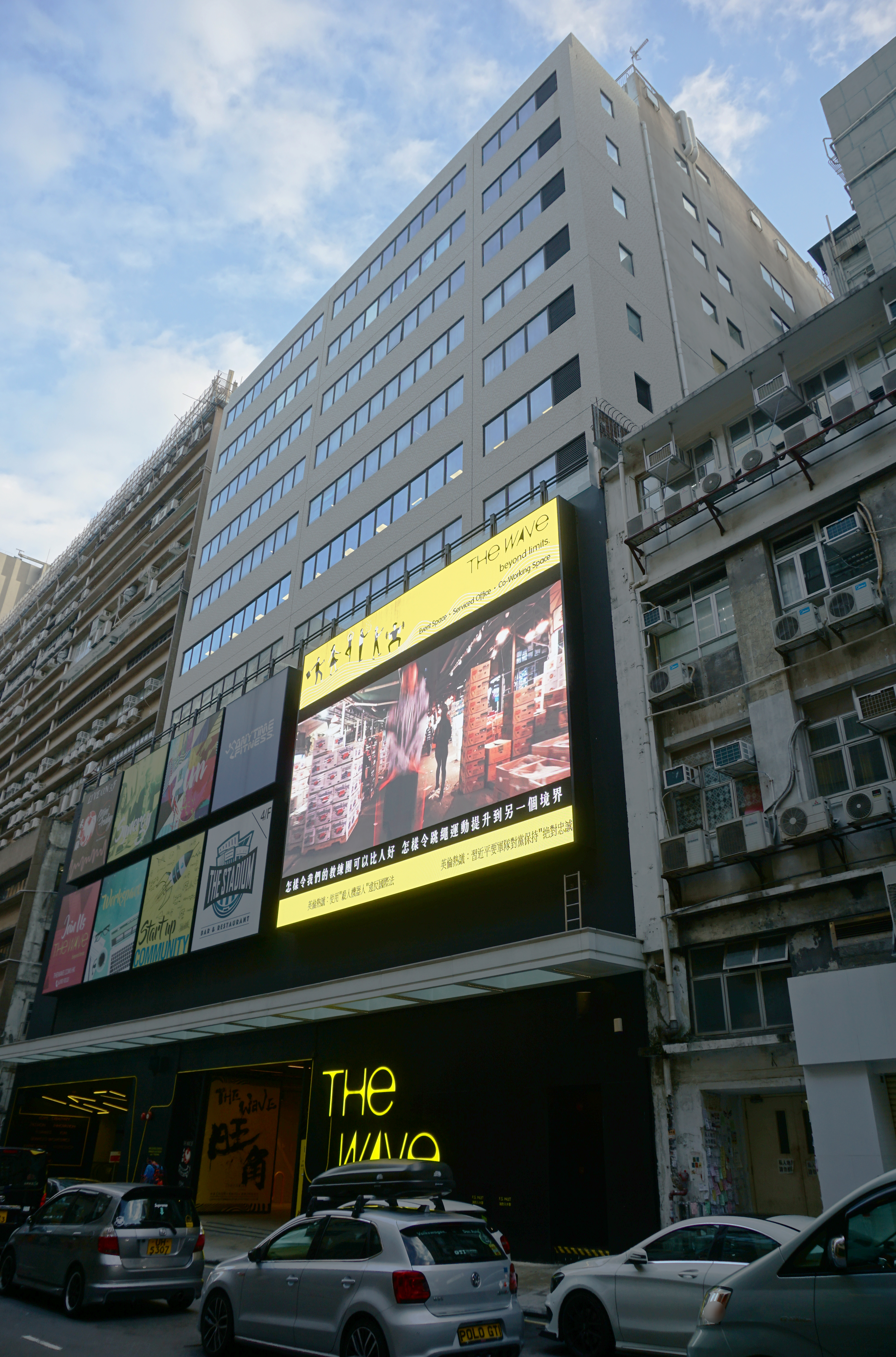 The Wave in Kwun Tong, Hong Kong.